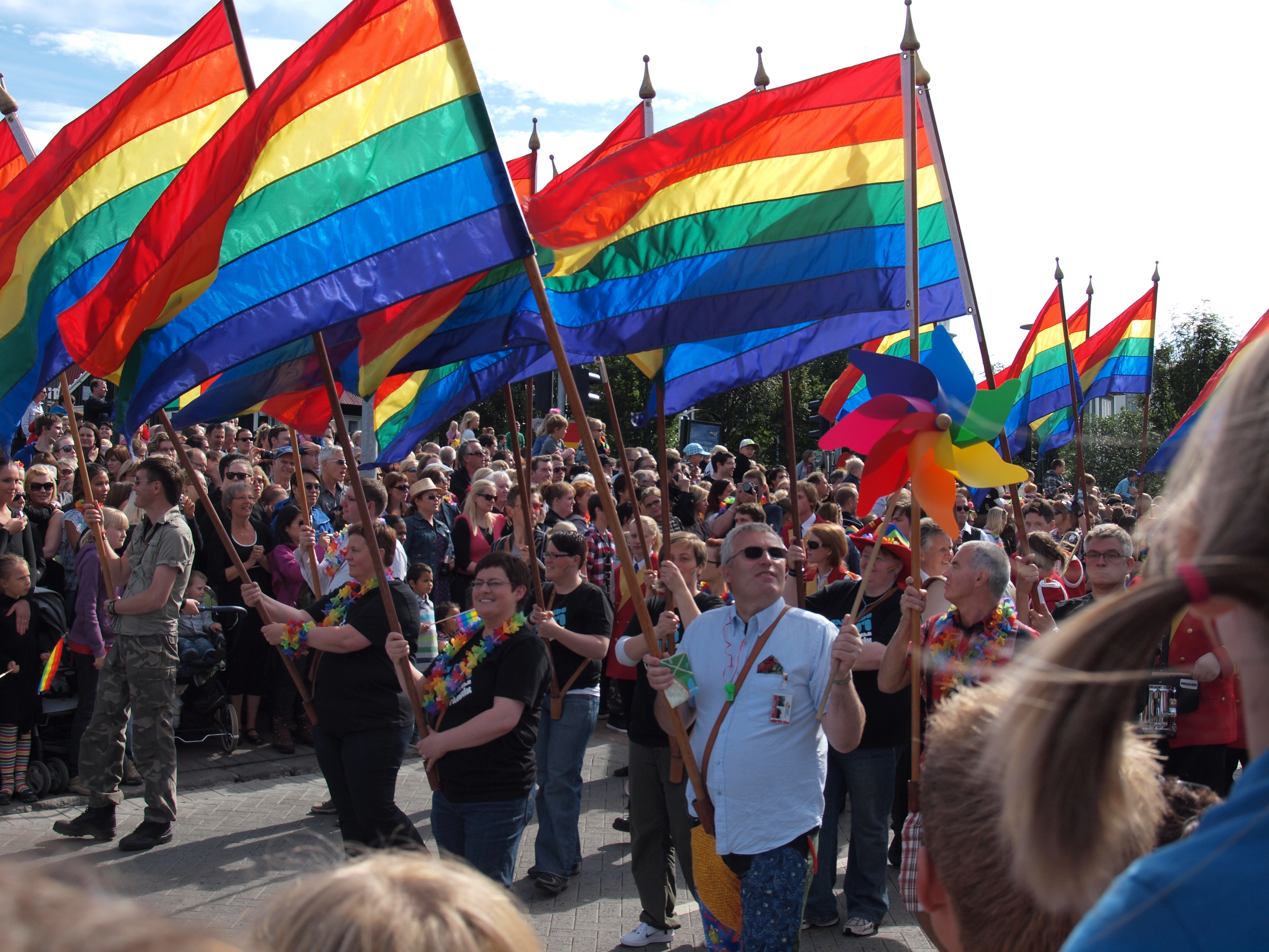 The annual gay pride parade in Reykjavík, Iceland, in August 2011.